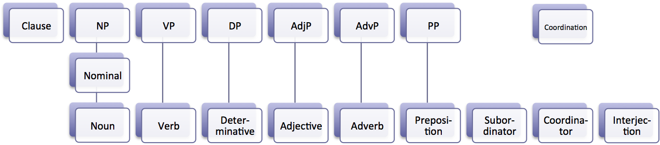 A visual depiction of the various grammatical categories in English under the analysis adopted by the Cambridge Grammar of the English Language.